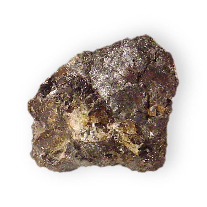 These mineral images are free to use how you wish.